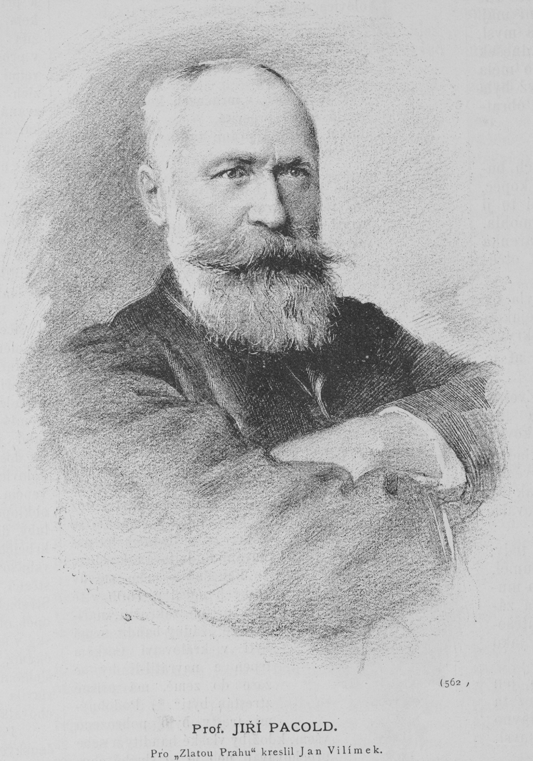 Portrait of Jiří Pacold (1834 - 1907), professor of civil engineering (construction) in Prague.